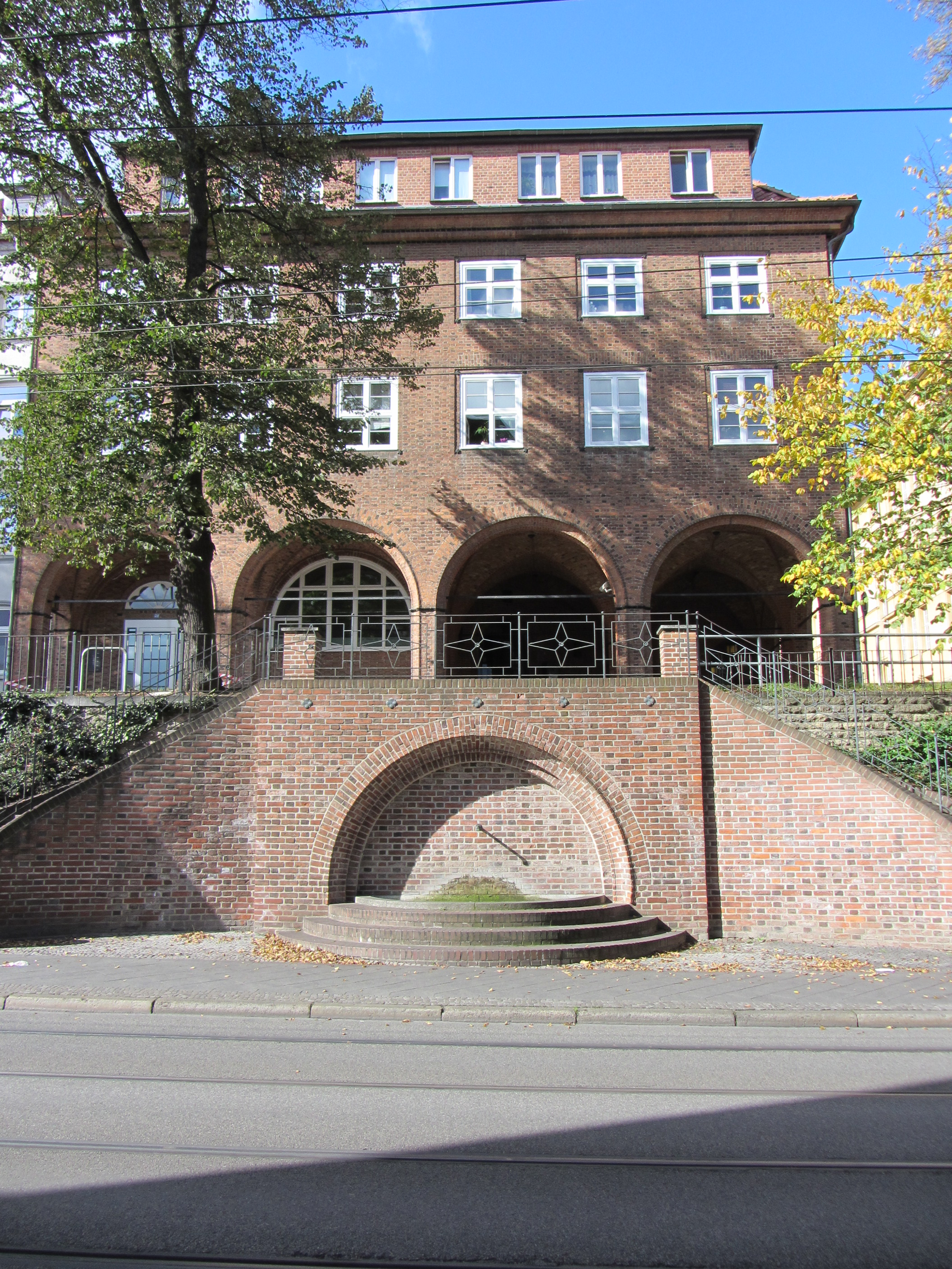 Residential complex Goethestraße 70/72 in Schwerin, Mecklenburg-Vorpommern. Former branch bank of Reichsbank, constructed 1922-1923. In the foreground a drinking water fountain.